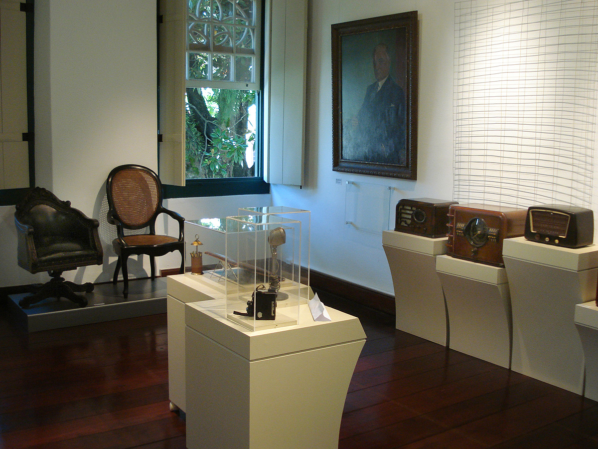 Interior of Joaquim Felizardo Museum, Porto Alegre.